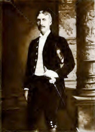 Court dress for presentation at court of Queen Victoria